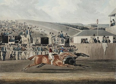 The deciding heat of the 1828 Epsom Derby. Cadland beats The Colonel. Hand coloured Aquatint after James Pollard.(1792-1867). Artist has been dead for 145 years.